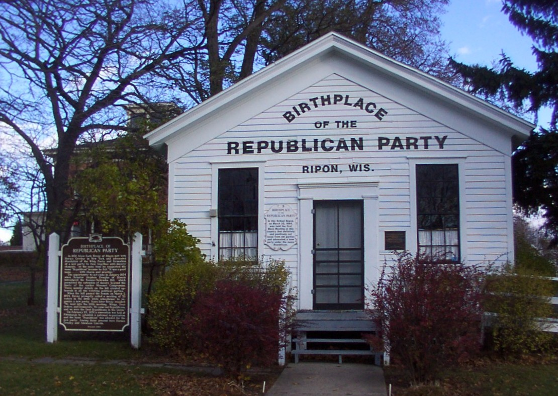 A photograph of the Little White Schoolhouse of Ripon, claimed birthplace of the U.S. Republican Party (i.e. the site of one of the first meetings of the general "anti-Nebraska" movement of 1854 to use the name "Republican"). Taken November 4 2004 by User:Laharl.